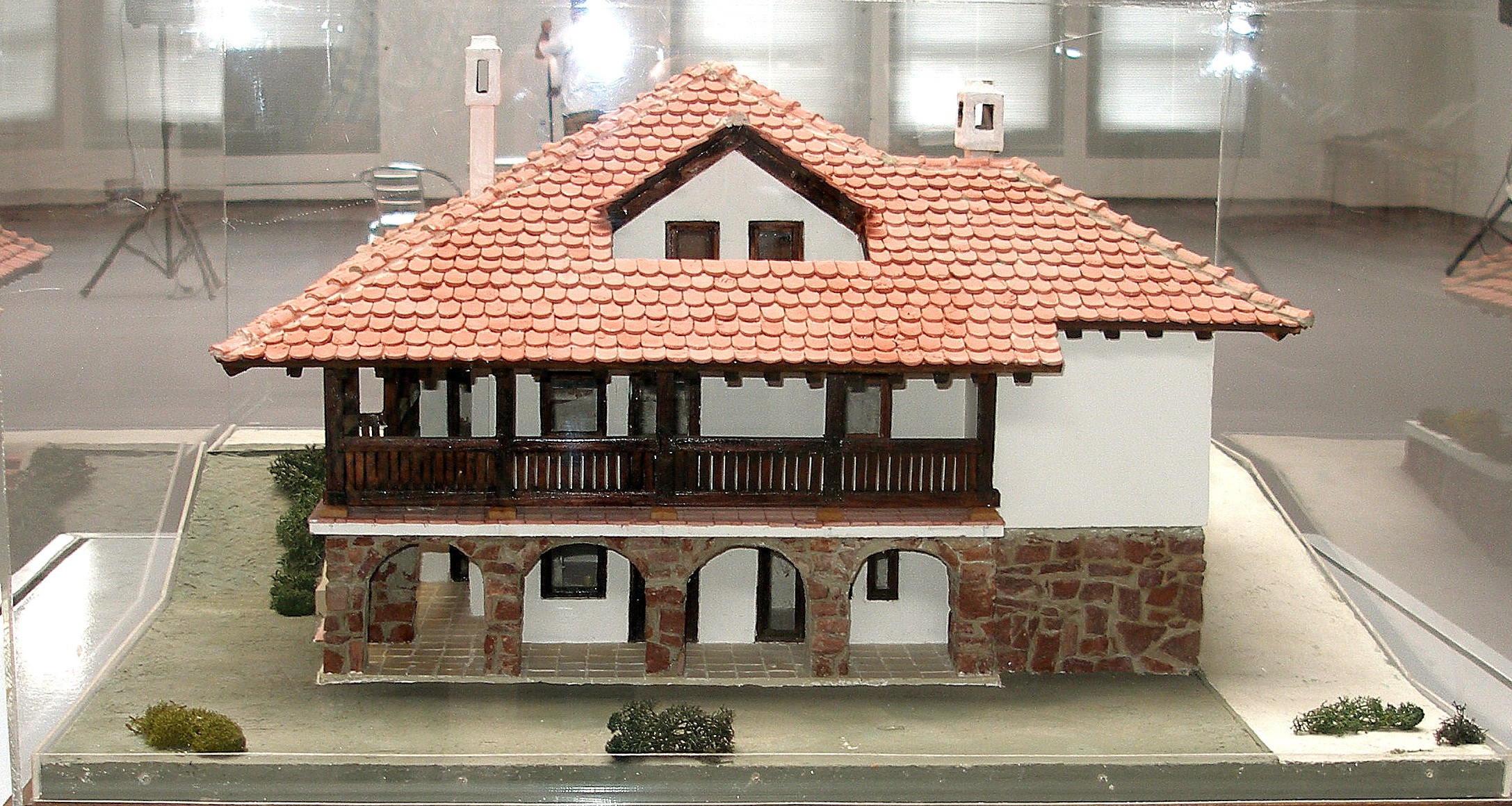 Model house in Belgrade. That was project of Boža Petrović, but it was never realized.